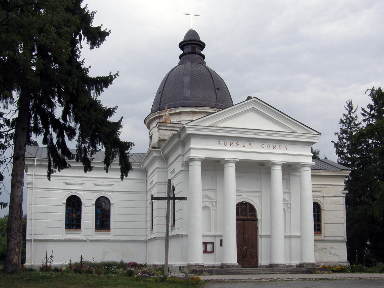 Ostroh, Catholic church